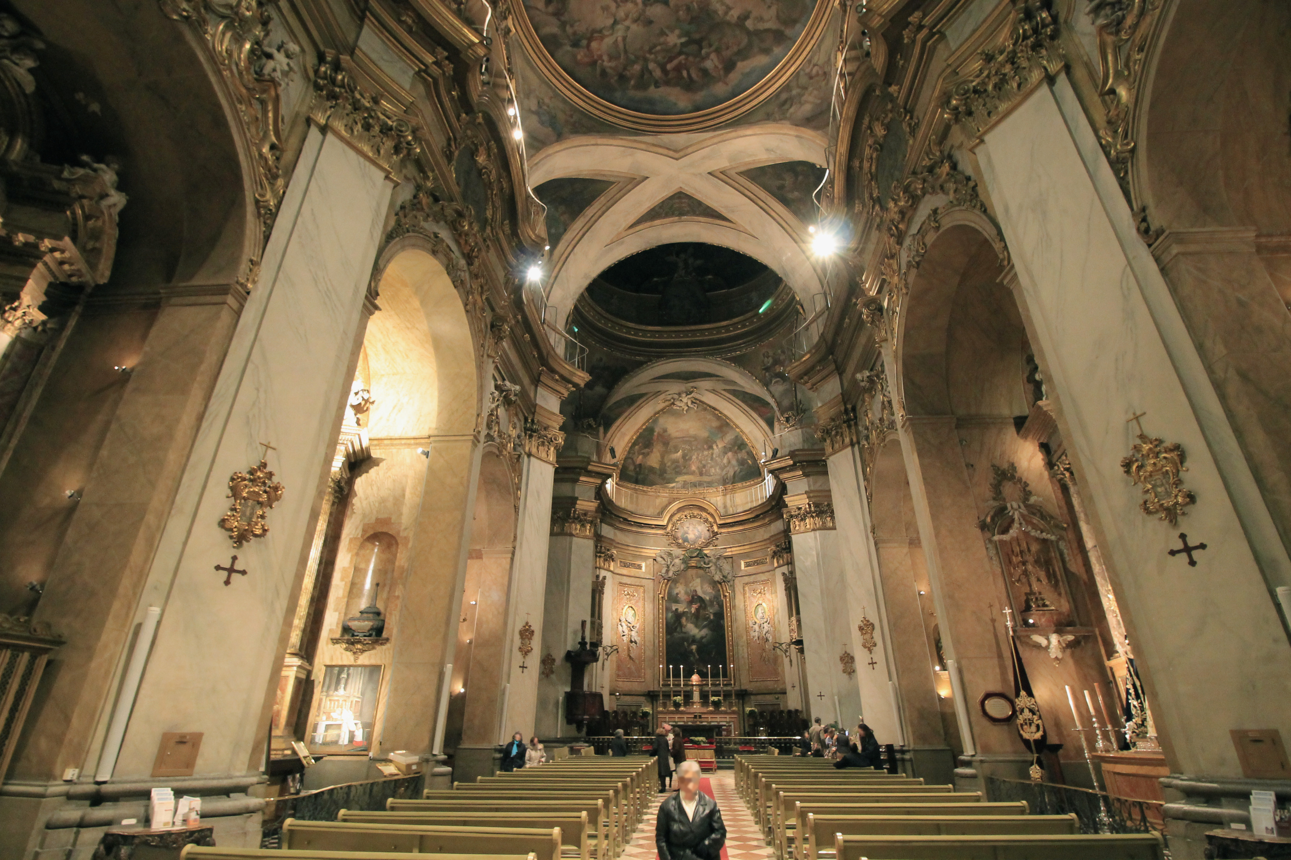 Interior of St. Michael’s Pontifical Basilica in Madrid (Spain).